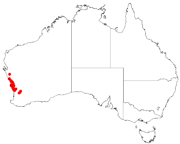 Desmocladus lateriticus Occurrence data downloaded from Australasian Virtual Herbarium on 24 January 2019 using